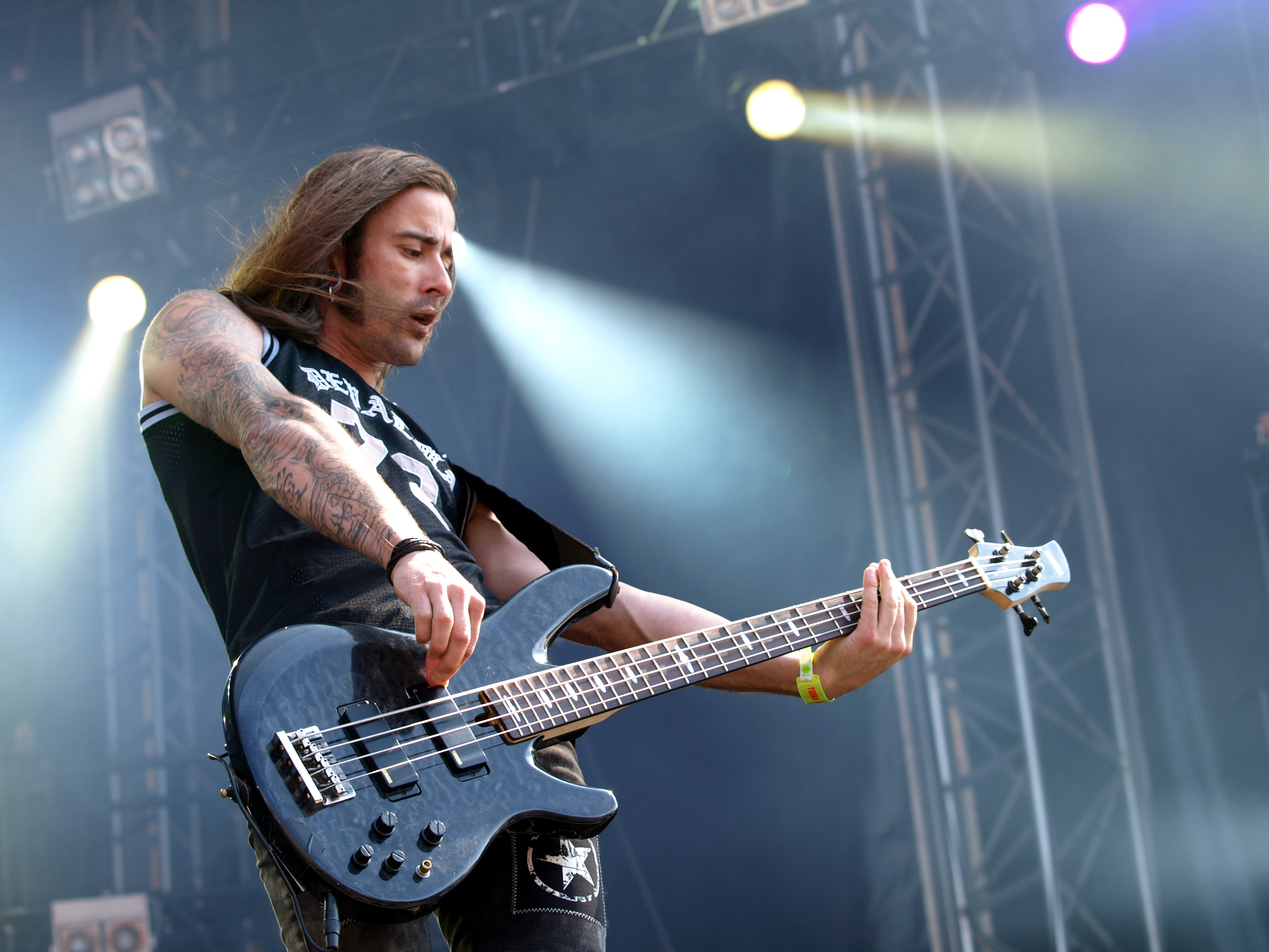 Swedish band Amaranthe at Tuska Open Air 2013